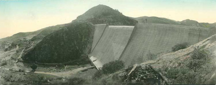 San Vicente Dam in 1950 Text of removed caption: SANVINCENTE DAM 1950 HEIDRICK PhoTo ESCONDIDO. CALIF